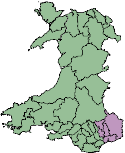 Gwent Area of Search